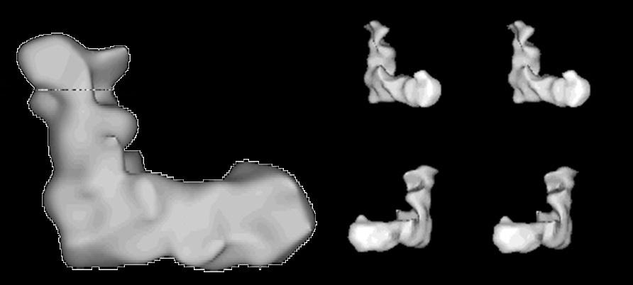 Respiration complex I surface, obtained through the electron microscopy. The typical form of an "old shoe" is demonstrated.